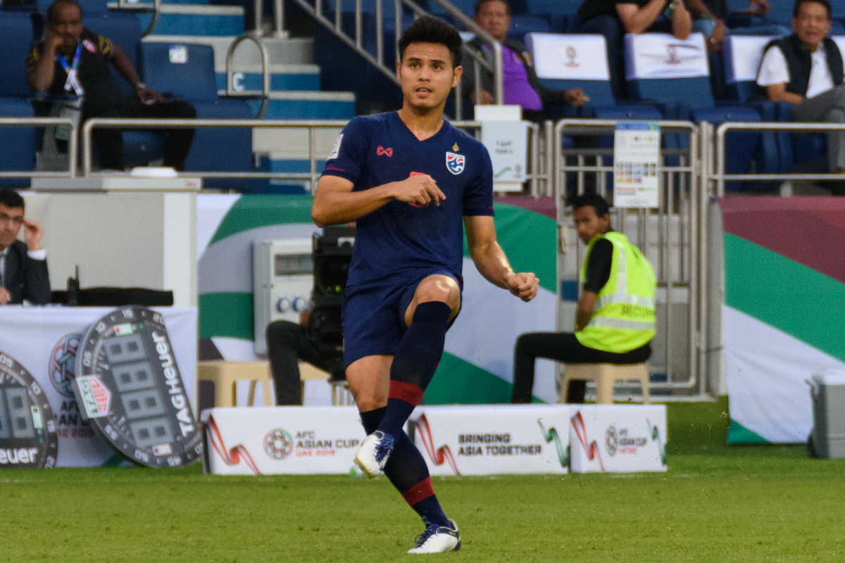 Theerathon Bunmathan at the Asian Cup 2019